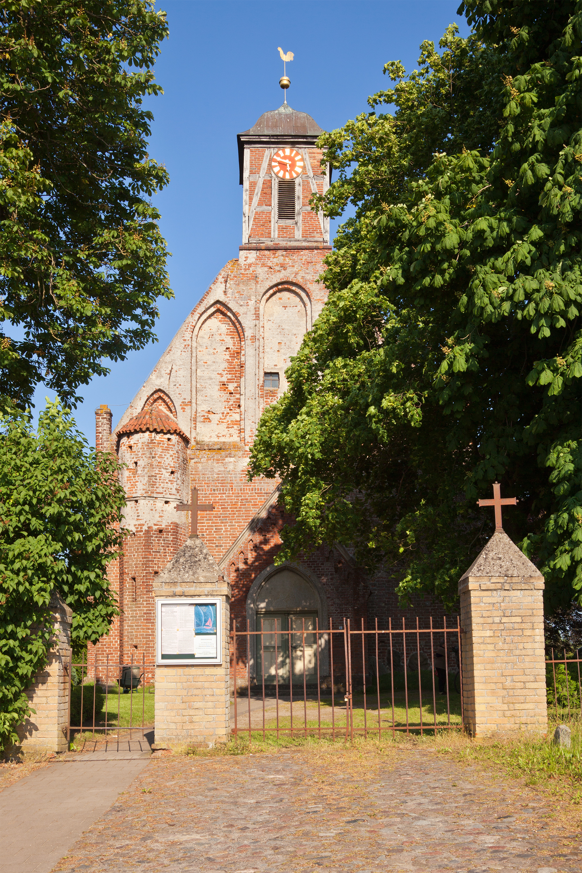 Samtens, church